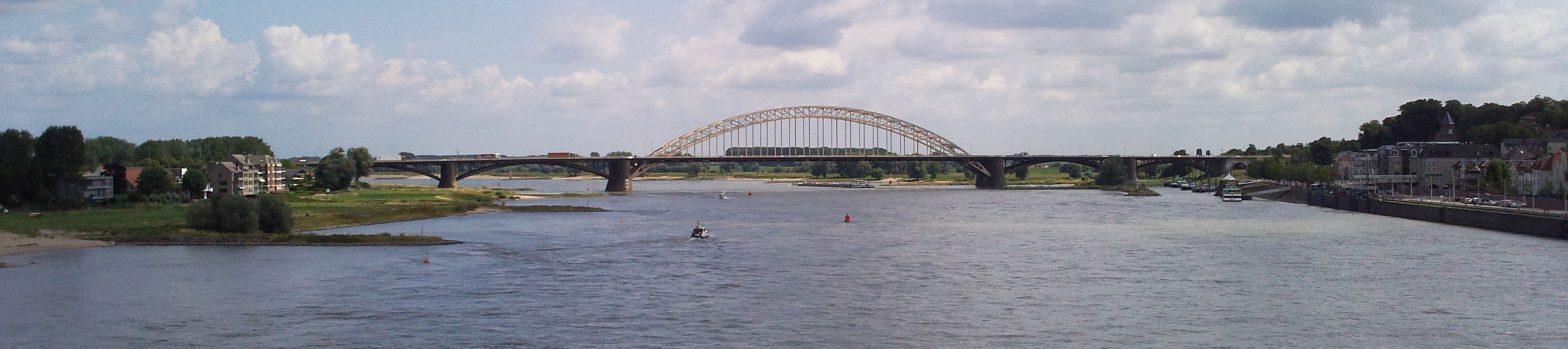 Waal bridge, Nijmegen (NL) as seen from Snelbinder bridge